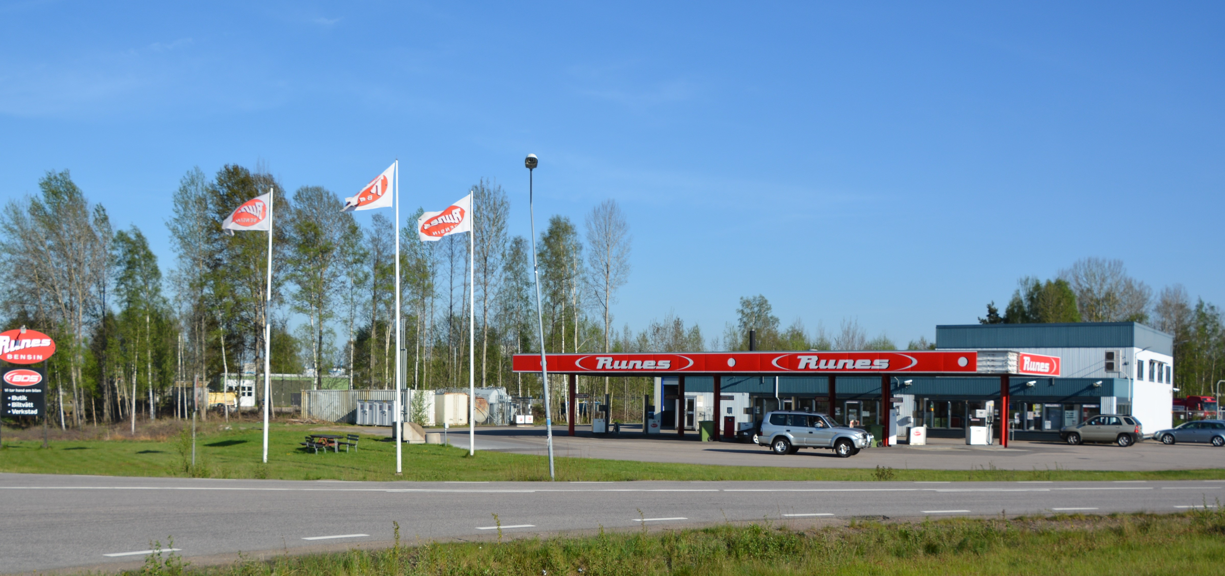 Runes Bensin, Emmaboda